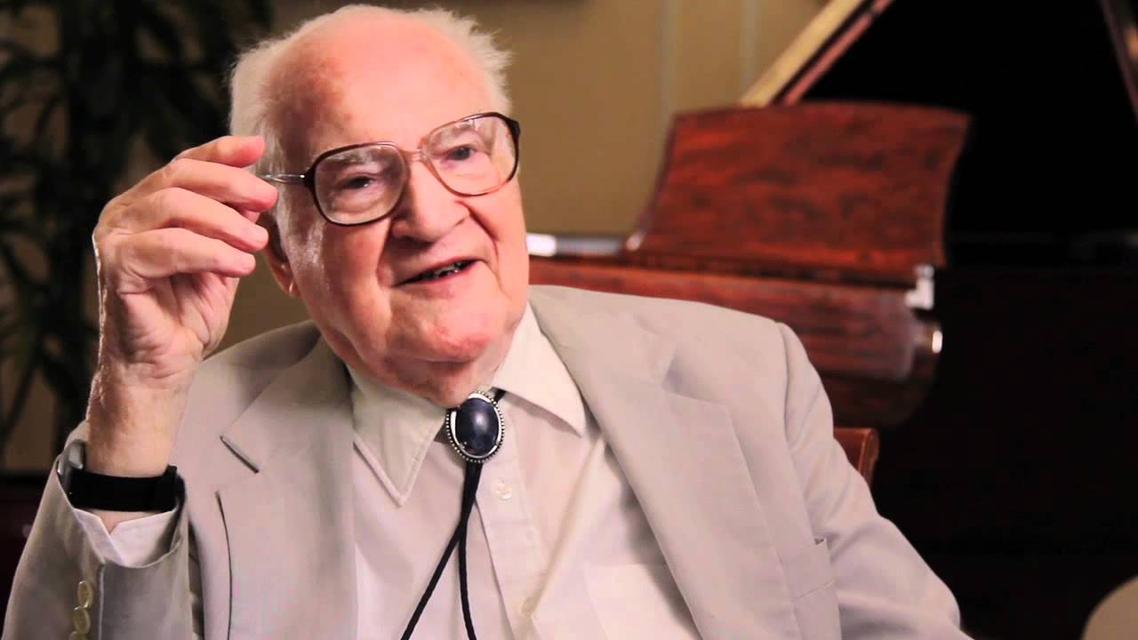 Screenshot of NEA interview with composer Robert Ward